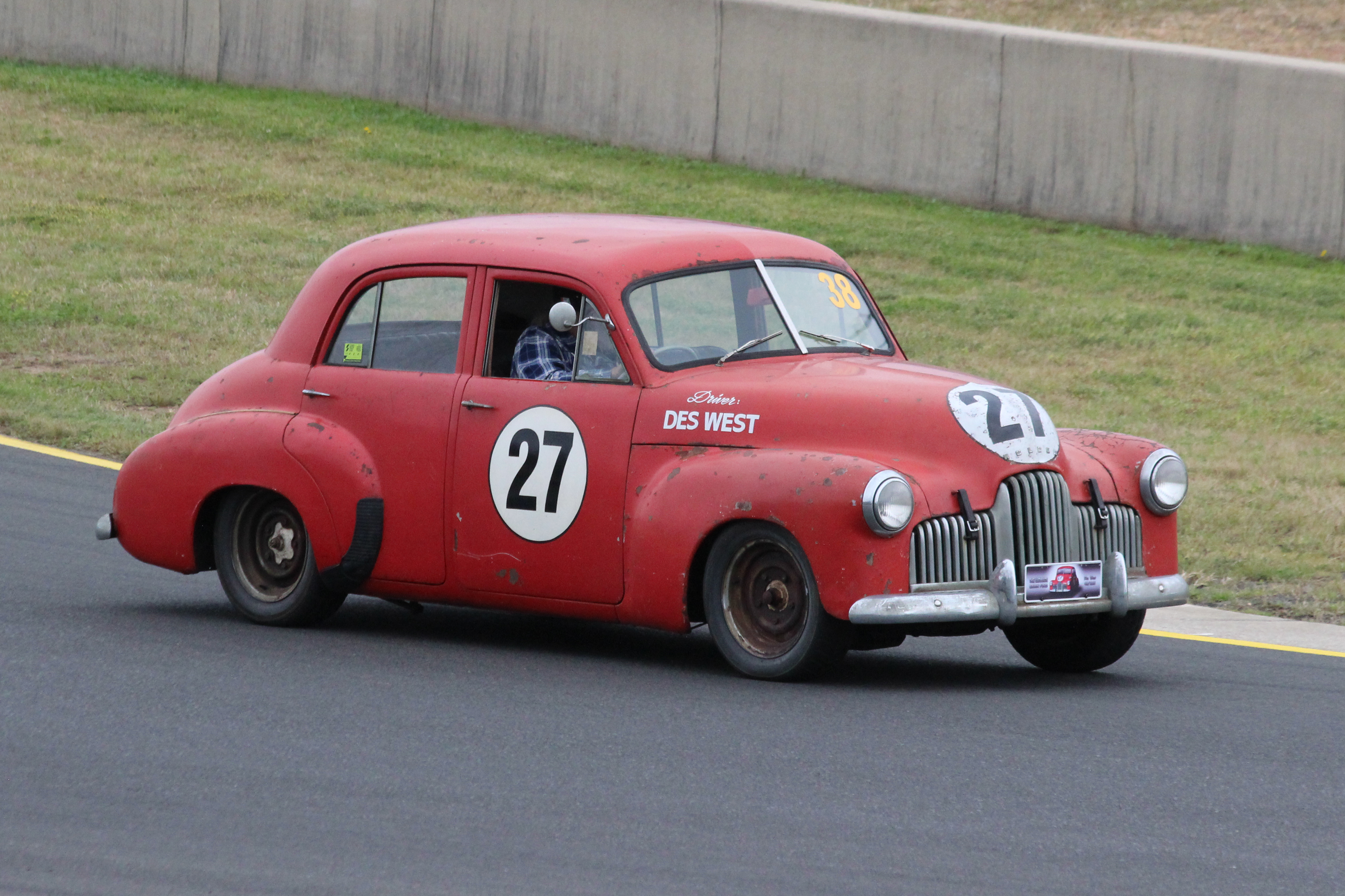 The Holden 48-215 which was raced by Des West in the 1960 Australian Touring Car Championship, pictured at the 2015 Muscle Car Masters.